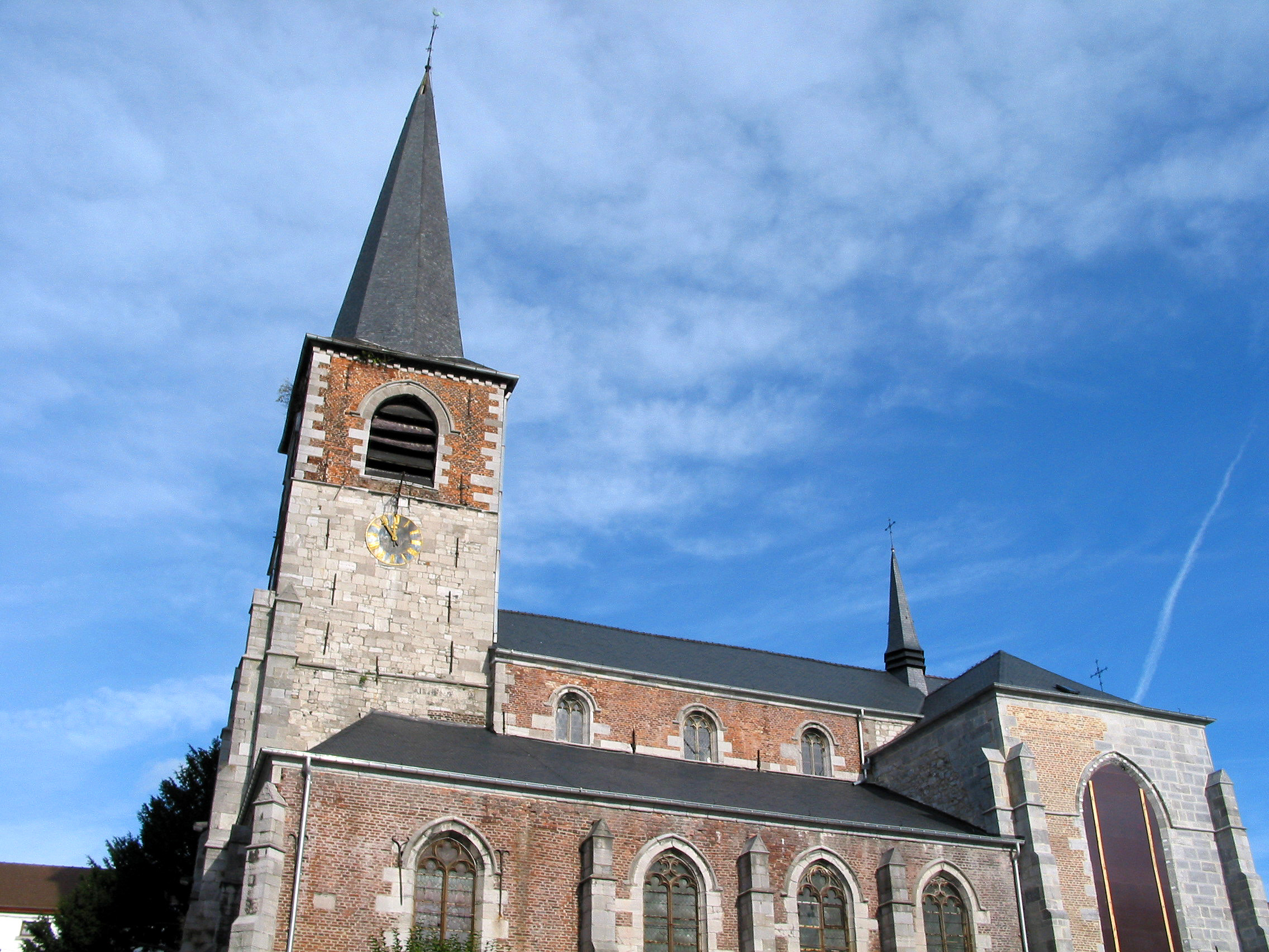 Fontaine-l'Évêque (Belgium), South side of the tower and the nave of the St. Christopher church (XVI/XVIIIth Centuries).